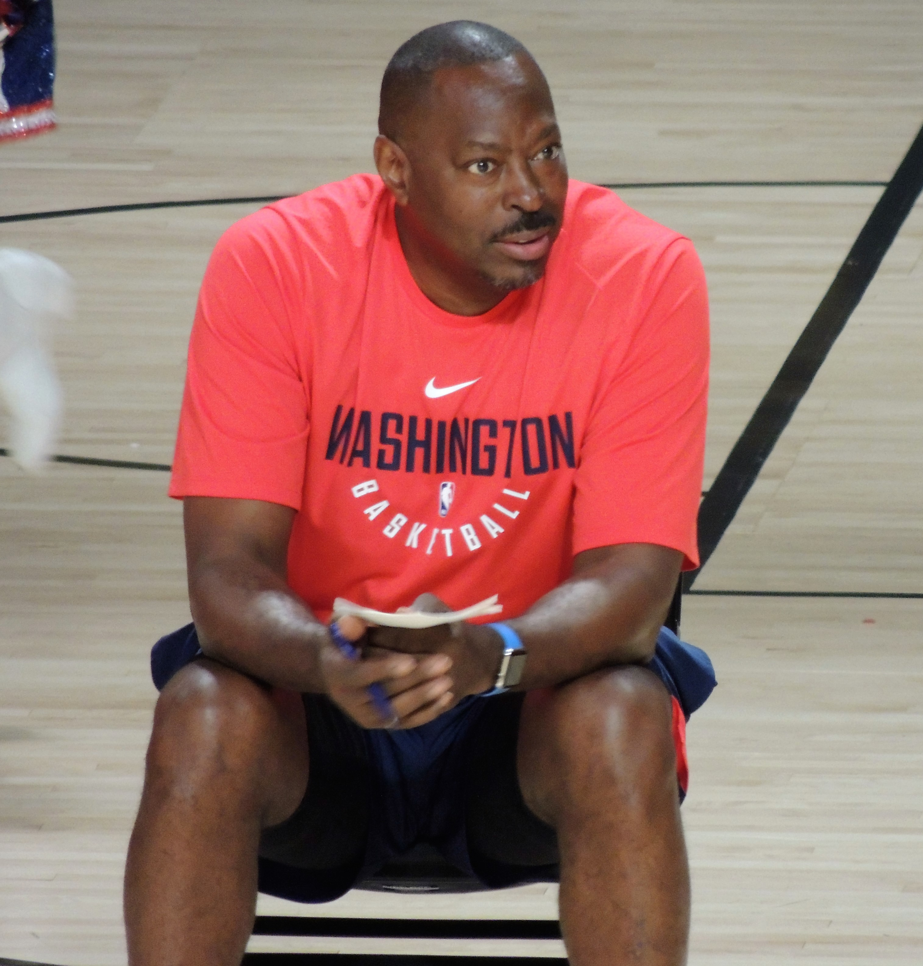 Assistant coach Tony Brown at 2017 Washington Wizards training camp